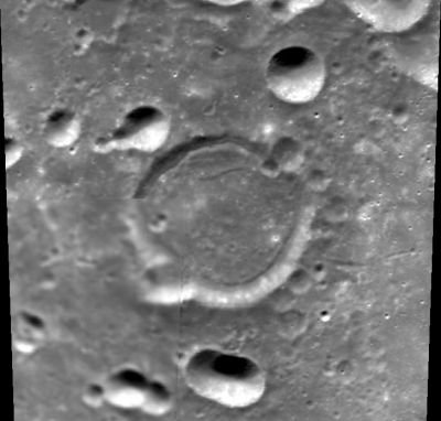 Haret lunar crater - Clementine image